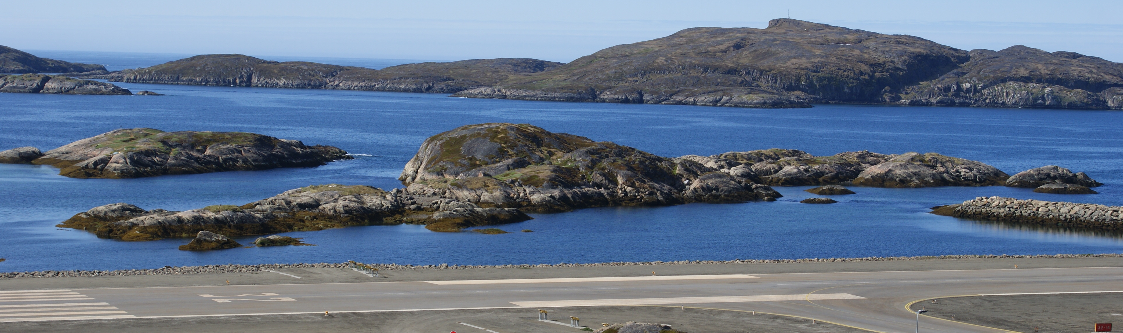 Runway at Sisimiut Airport on the shore of Kangerluarsunnguaq Bay north of Sisimiut, Greenland.